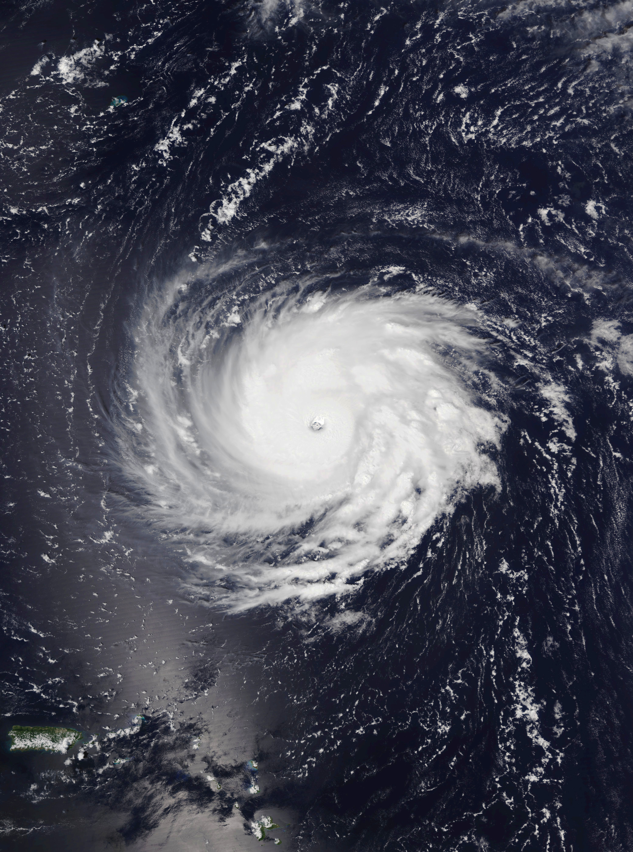 Hurricane Florence nearing peak intensity on September 10, 2018